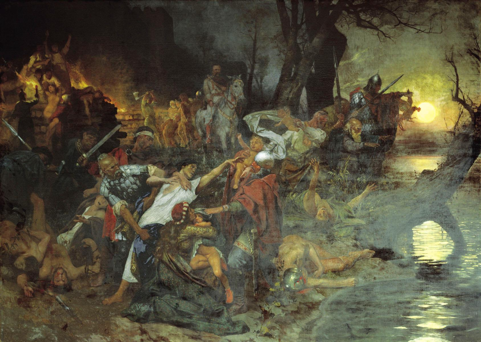 Funeral feast of Svyatoslav's Russian warriors after battle in 971.label QS:Lru,"Тризна дружинников Святослава после боя под Доростолом в 971 году." label QS:Len,"Funeral feast of Svyatoslav's Russian warriors after battle in 971."